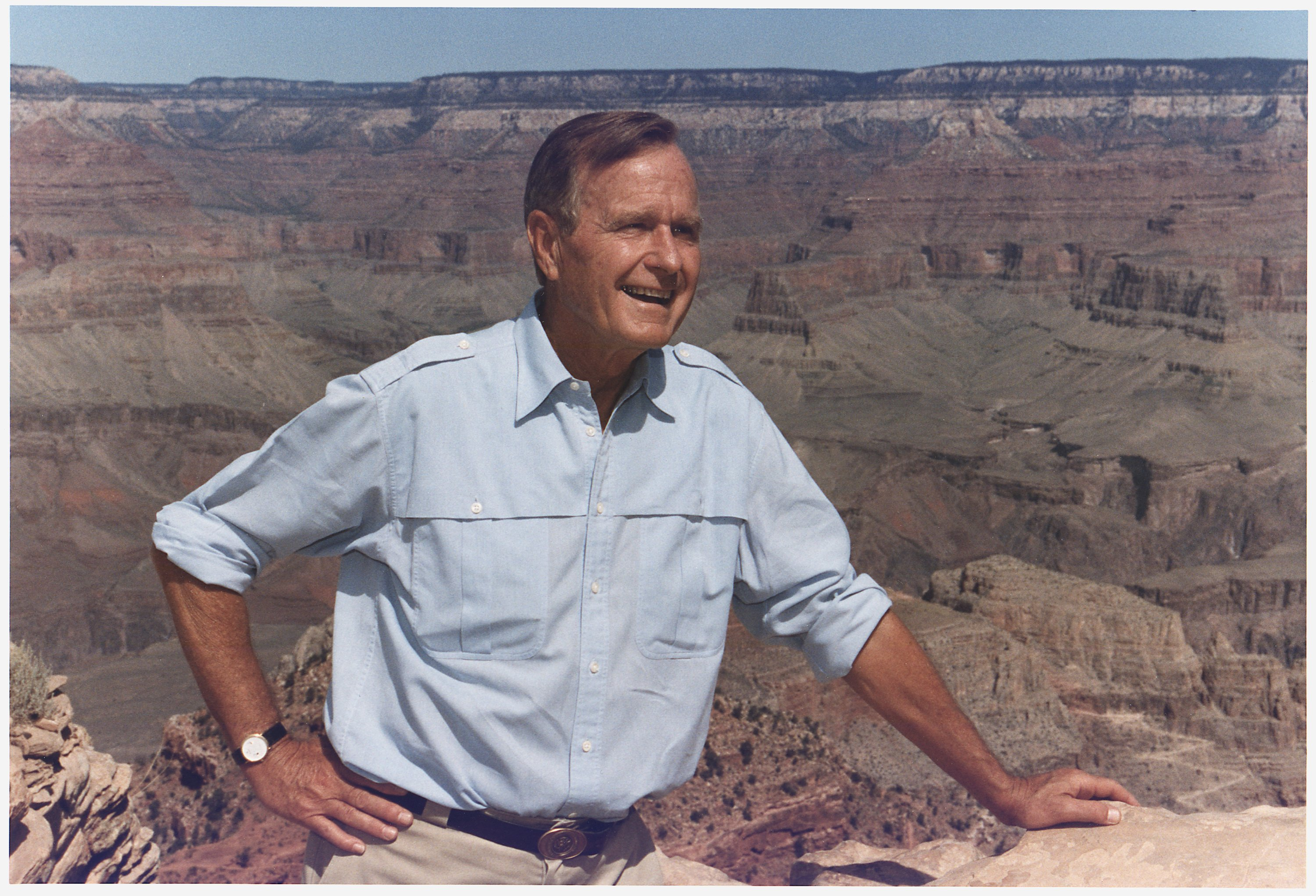 President Bush goes for a hike on the South Kaibab Trail at the Grand Canyon in Arizona. The view is centered on the east side of Bright Angel Canyon, with Sturdevant Point overlooking Granite Gorge. Behind the point on the 'ridgeline' is Buddha Temple; in the back the North Rim is seated on Kaibab Plateau, with Grama Point, Tiyo Point and Widforss Point. The slope-forming Muav, Bright Angel sit on the Tapeats Sandstone-(the 3 of the Tonto Group), on the Granite Gorge edge. The platform with base of the Tapeats erosion-resistant unit is the Tonto Platform, location of the Tonto Trail—(south side of Granite Gorge).